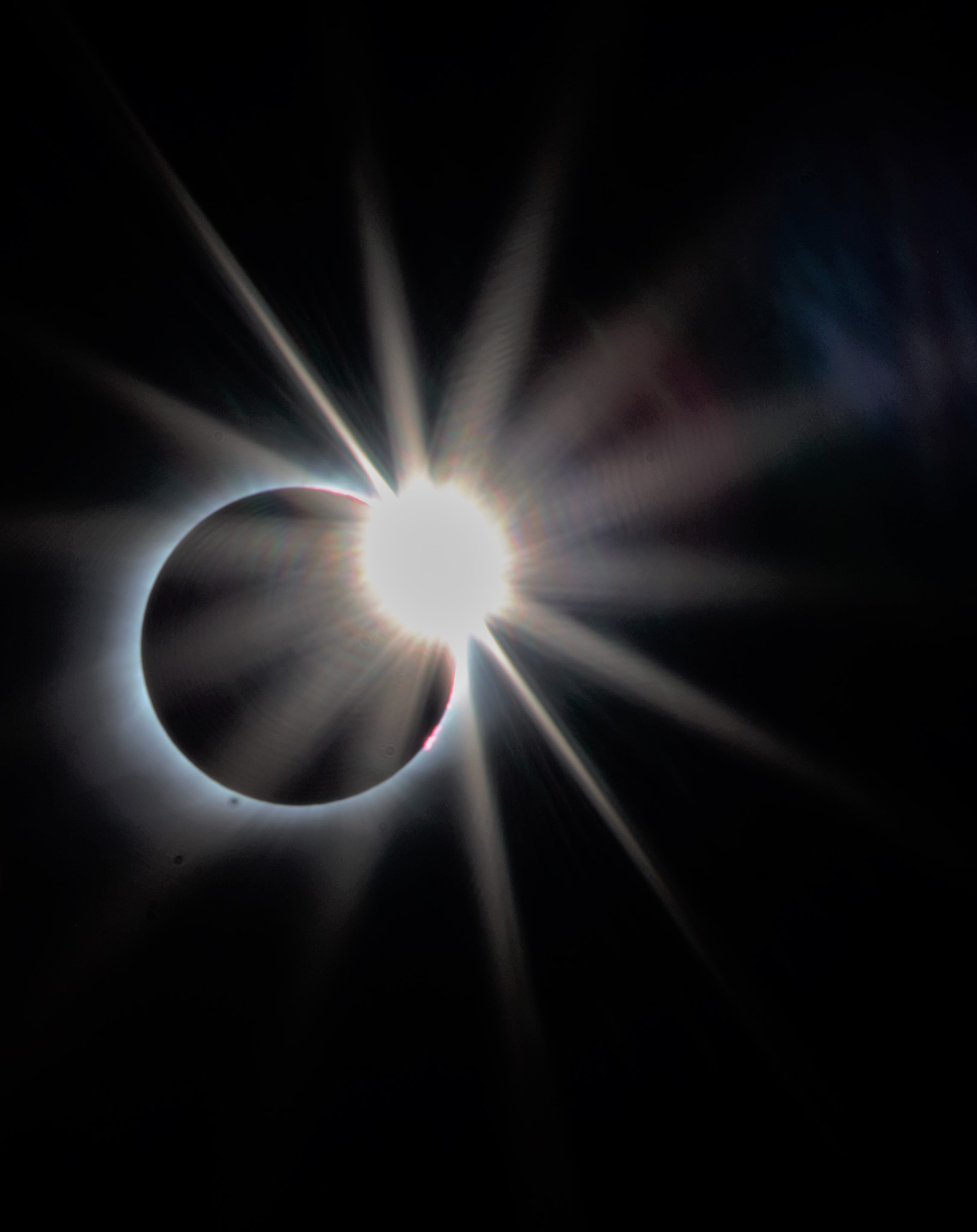 Diamond Ring effect at the end of totality in Oregon during the solar eclipse of August 21, 2017. Some prominences can also be seen along the edges. Location: Polk County Fairgrounds, Rickreall, OR.